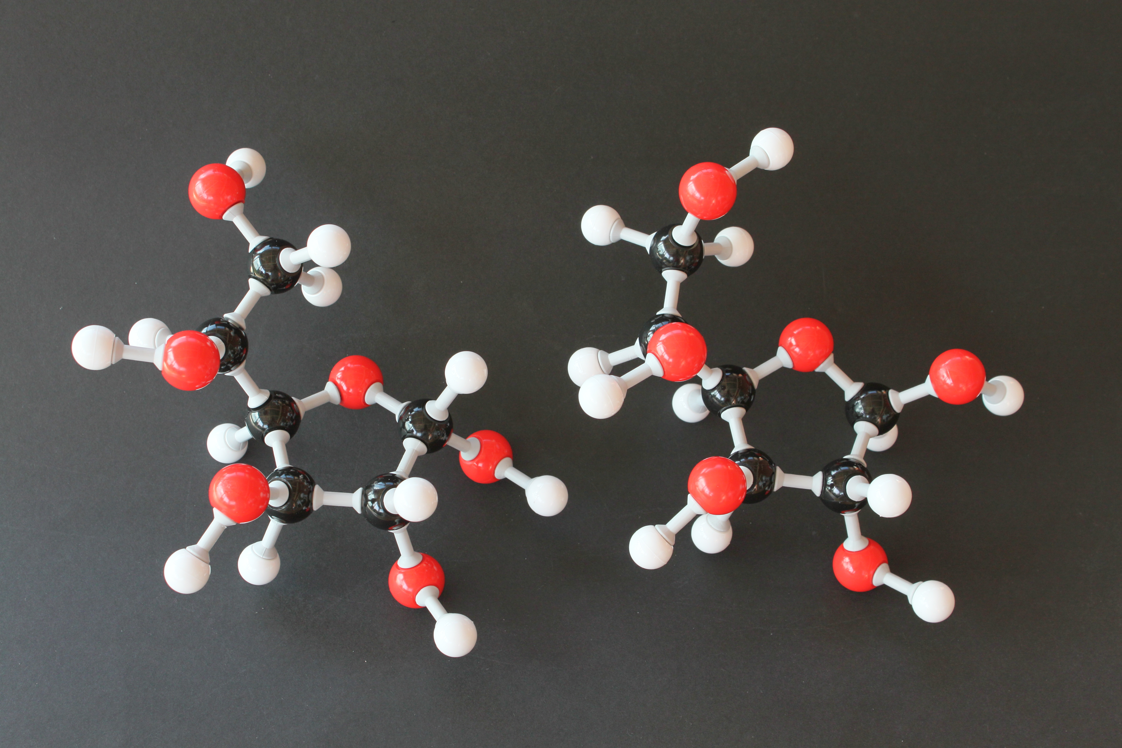 Chemical structures constructed with Prentice Hall Molecular Model Set for General Organic Chemistry